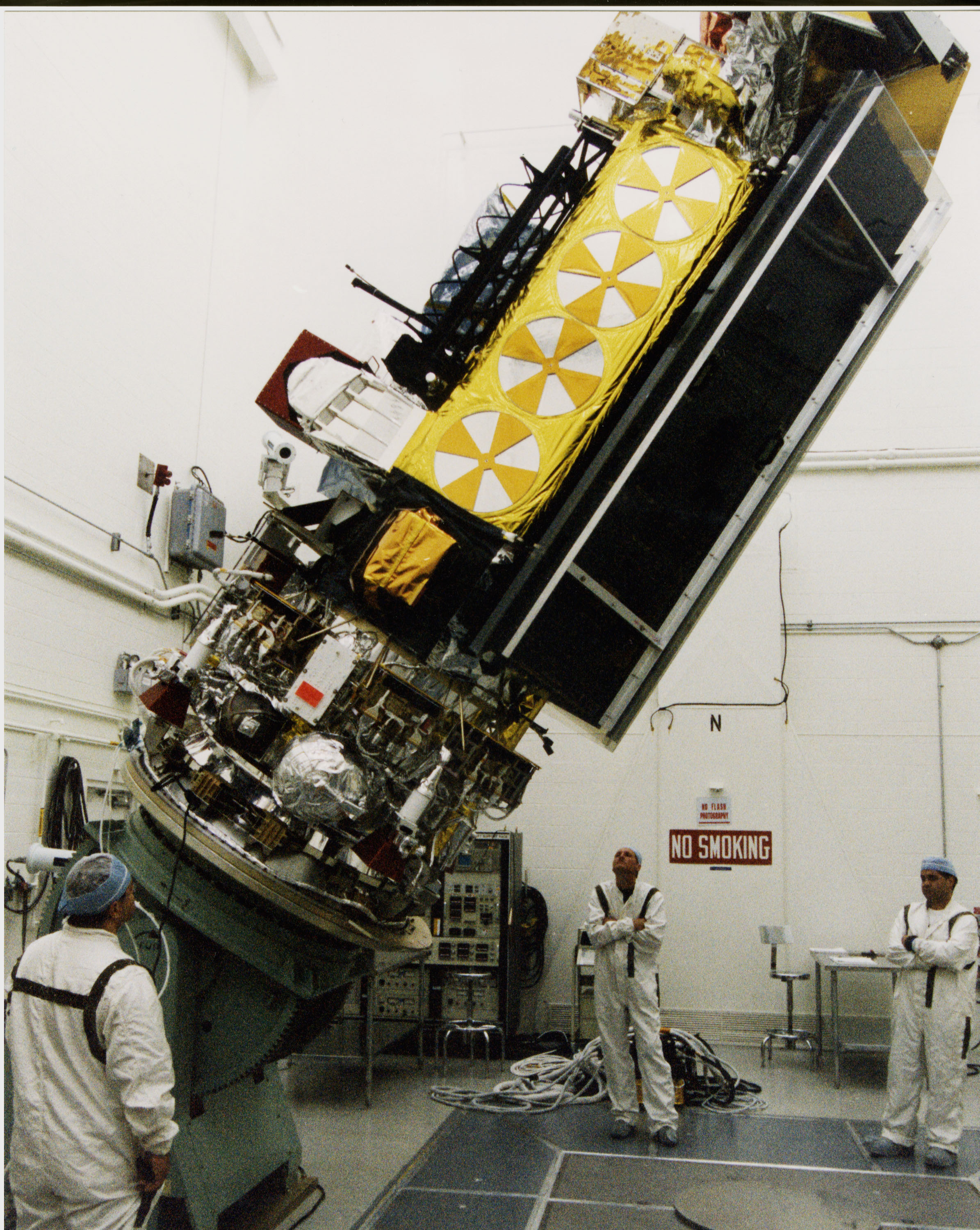 Inside the B16-10 spacecraft processing hangar at Vandenberg Air Force Base, Calif., workers oversee the lifting and rotating of the National Oceanic and Atmospheric Administration (NOAA-L) satellite to allow for mating of the Apogee Kick Motor (AKM). NOAA-L is part of the Polar-Orbiting Operational Environmental Satellite (POES) program that provides atmospheric measurements of temperature, humidity, ozone and cloud images, tracking weather patterns that affect the global weather and climate. The launch of the NOAA-L satellite is scheduled no earlier than Sept. 12 aboard a Lockheed Martin Titan II rocket.